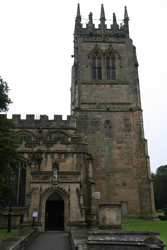 All Saints Church, Gresford